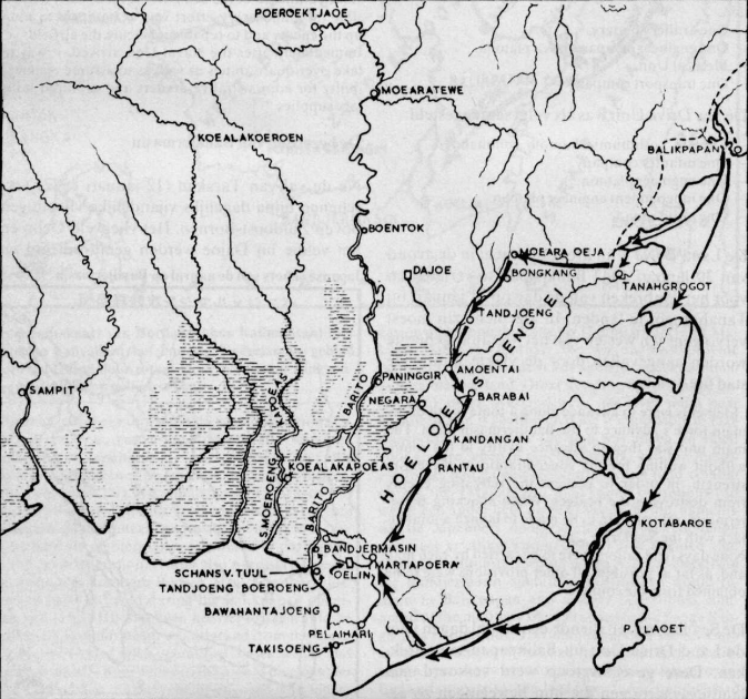 Detail of the advance of the Land Drive and Sea Drive Unit to Banjarmasin, 1942